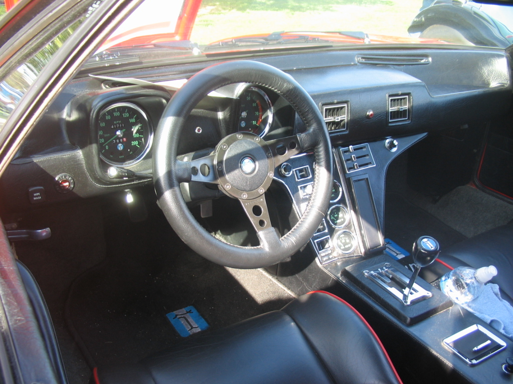 Interior of a 1972 De Tomaso Pantera.